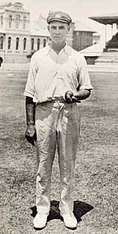 Picture of former Australian cricketer Bert Ironmonger taken circa 1930. Image is pre-1955 and is therefore in the public domain.